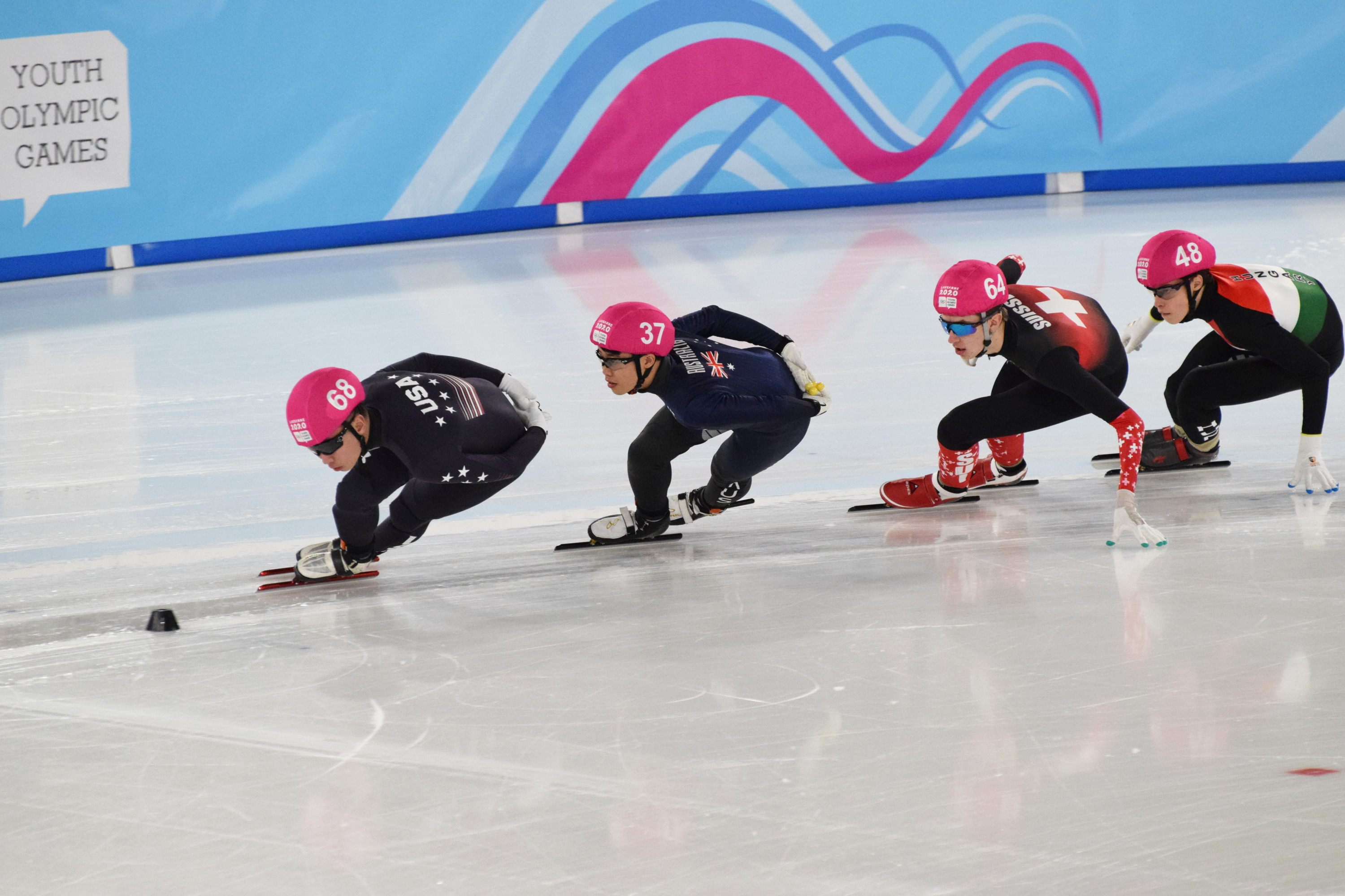 Lausanne 2020 YOG Short Track Speed Skating 1000m Men's Heat 6